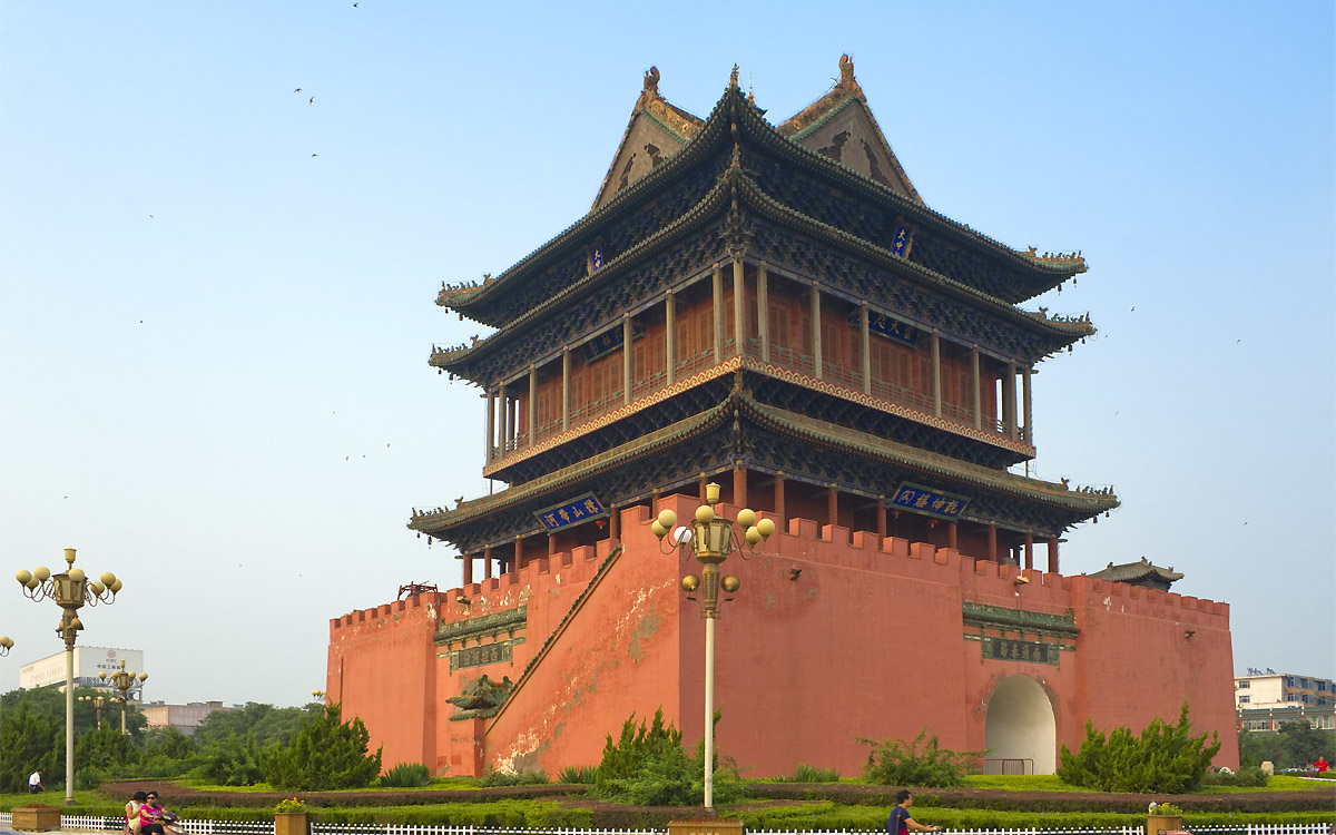 Swallows swarm around Linfen’s gulou (drum tower) in early evening.